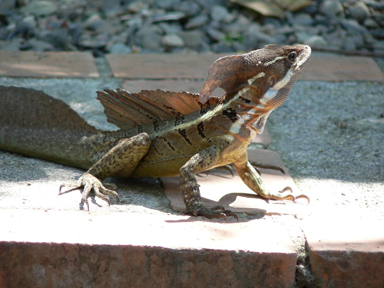 Common Basilisk (or Jesus [Christ] Lizard). Photo taken in Manual Antonio, Costa Rica